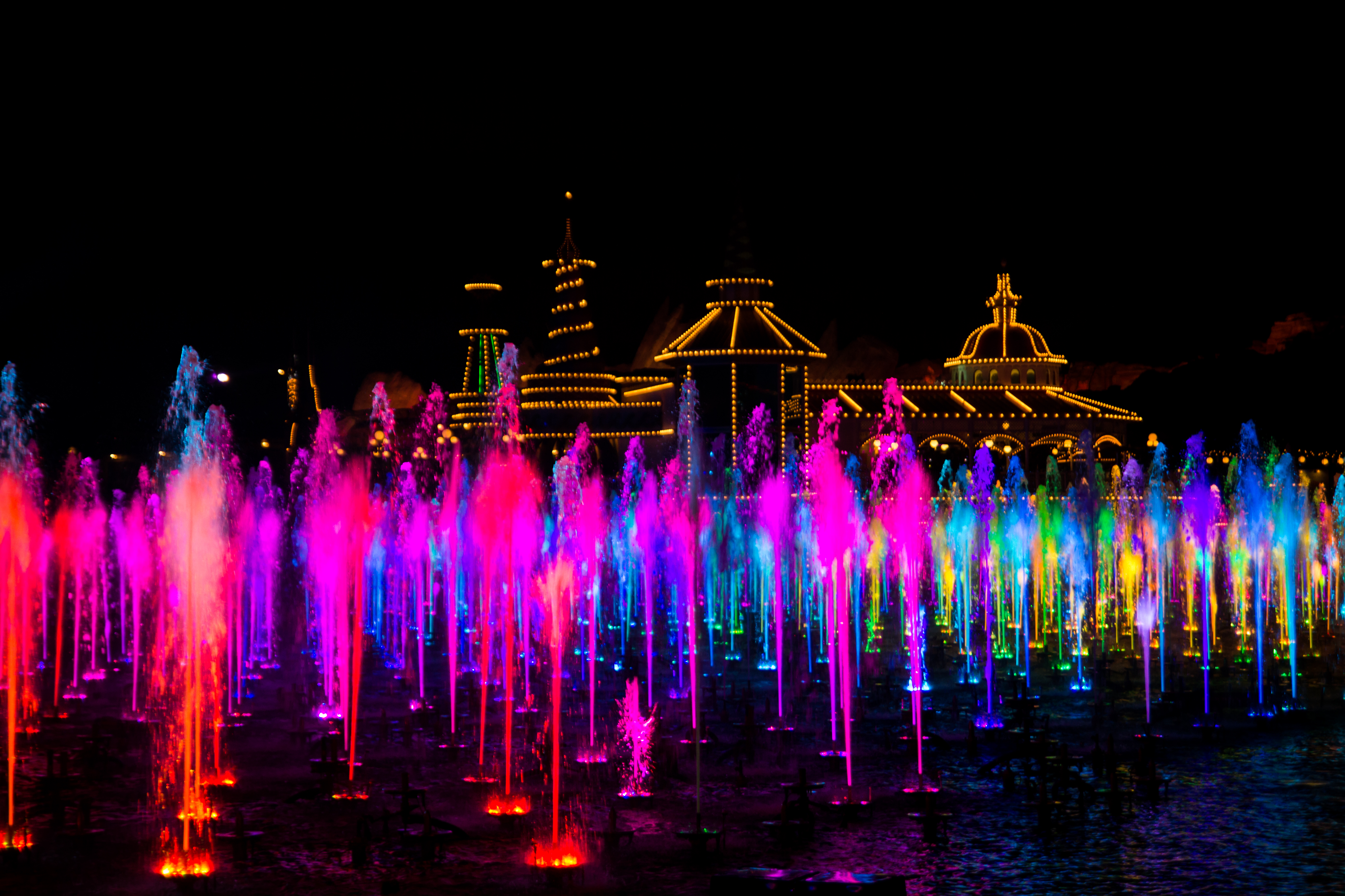 A view of the spectacular World of Color show at Disney California Adventure from Silly Symphony Swings at Paradise Pier.